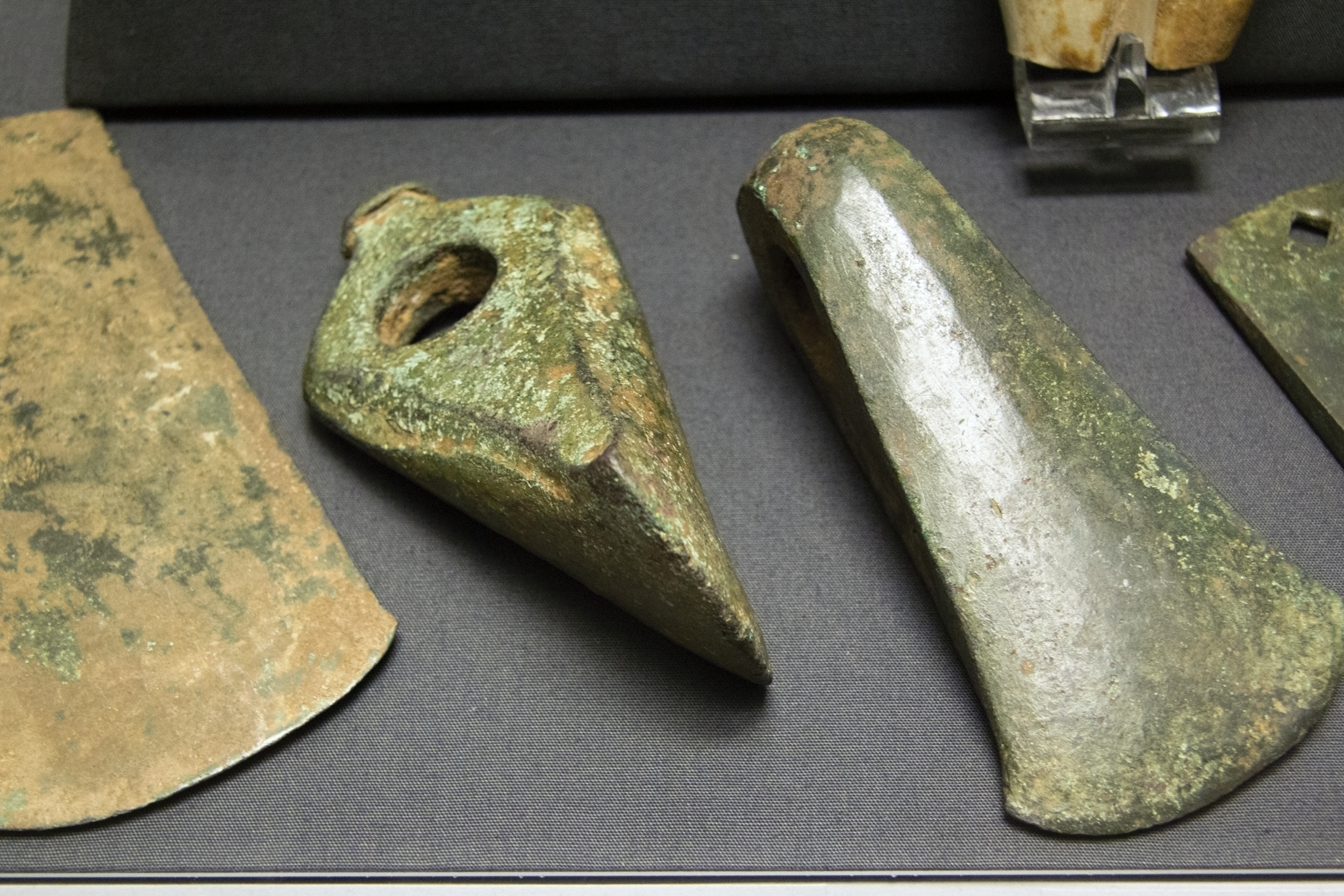 Part of a hoard of tools of arsenical copper, probably used for woodworking. Finding from Naxos. Keros-Syros Culture, Cycladic Early Bronze Age, EC II, 2700 – 2200 BC, British Museum GR 1969.12-31.1 to 8.